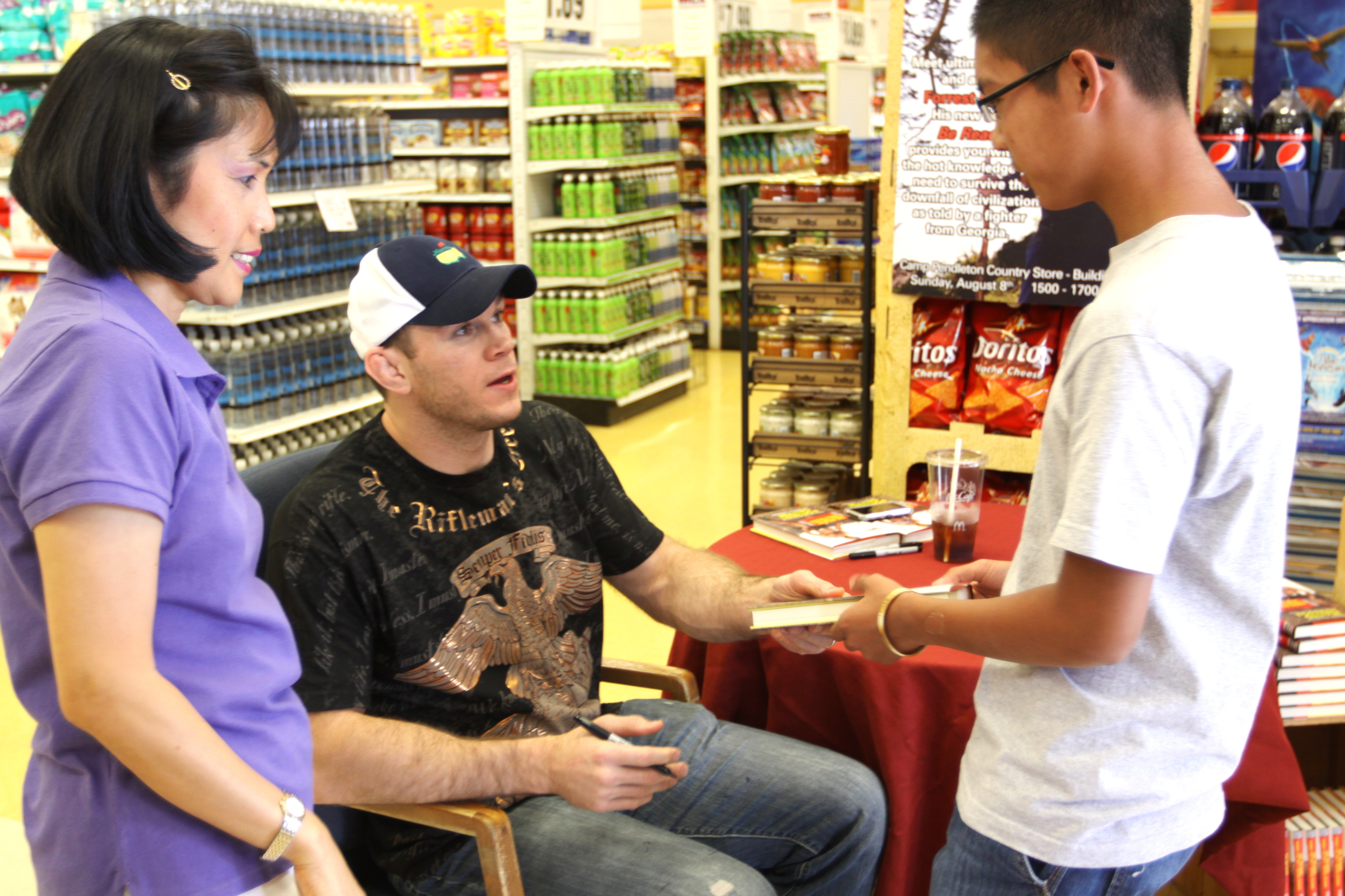 Forrest Griffin, Ultimate Fighting Championship, light-heavyweight fighter, autographs his new book titled “Be Ready When the Sh*t Goes Down: A Survival Guide to the Apocalypse” at the Camp Pendleton Country Store, Aug. 8. Within the last ten years, Griffin has written two books, his first being a New York Times best-seller, and named a UFC champion.